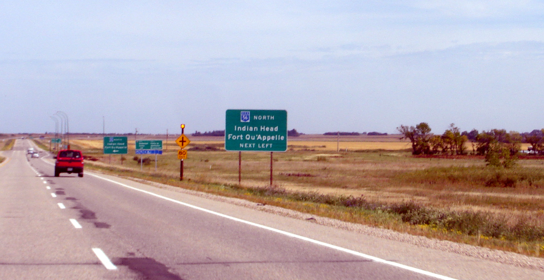 Fort Qu'Appelle Sk Hwy 56 road sign on the Trans Canada Sk Hwy 1 Saskatchewan